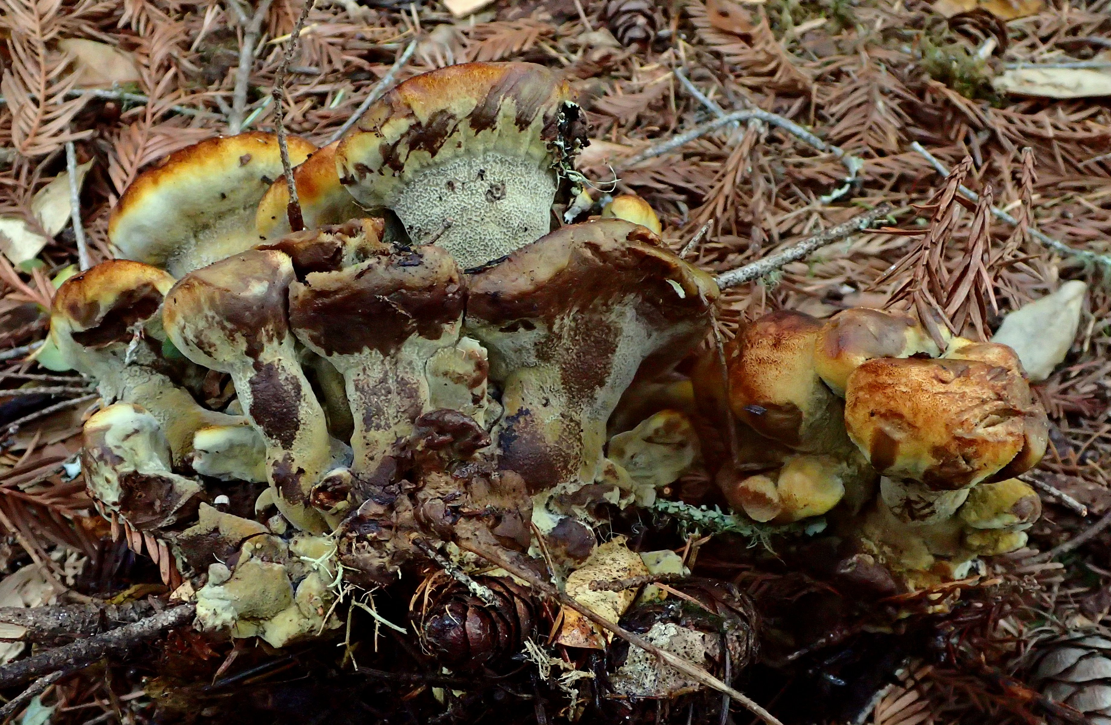 Phaeolus schweinitzii (Fr.) Pat. Image location: Henry Cowell Redwoods State Park, Scotts Valley, California, USA One of the more interesting forms. Recognized by sight For more information about this, see the observation page at Mushroom Observer.